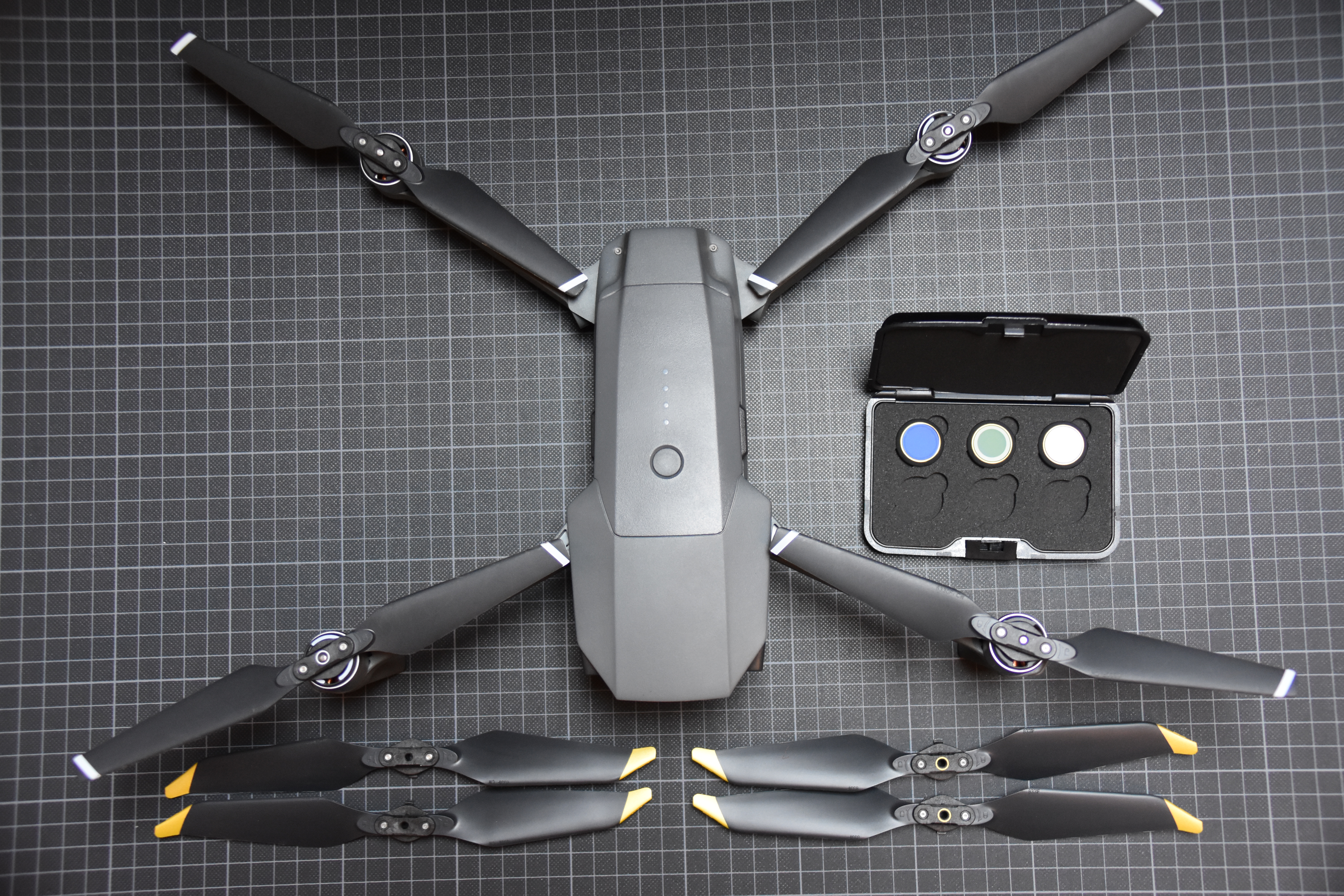 DJI Mavic Pro with Accessoires